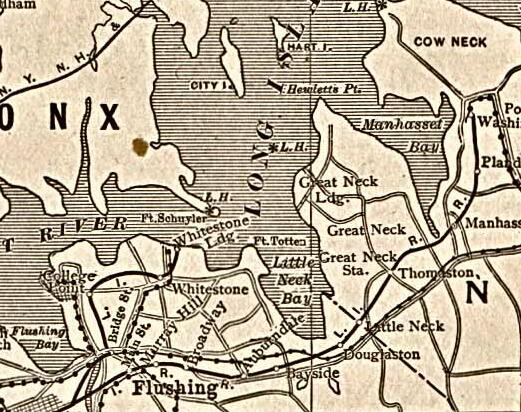 Map of Little Neck Bay, Long Island, New York from a 1917 map of New York City.